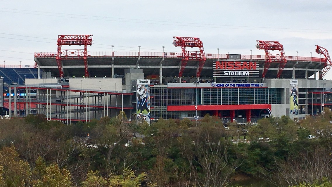 Nissan Stadium, home of the NFL’s Tennessee Titans, in 2017.